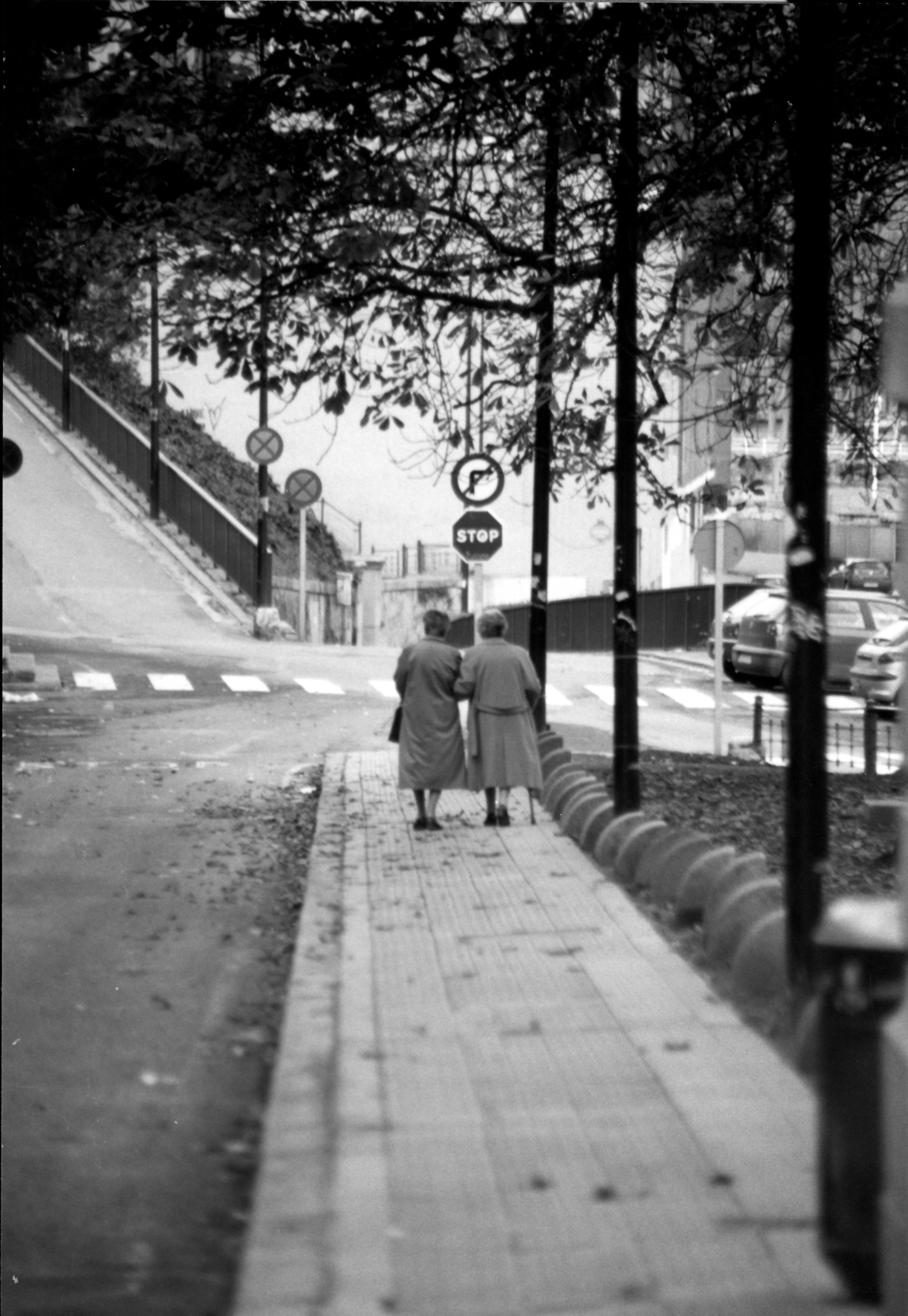 Two elder women taking a stroll near the river in Bilbao. Picture taken in October 2001.